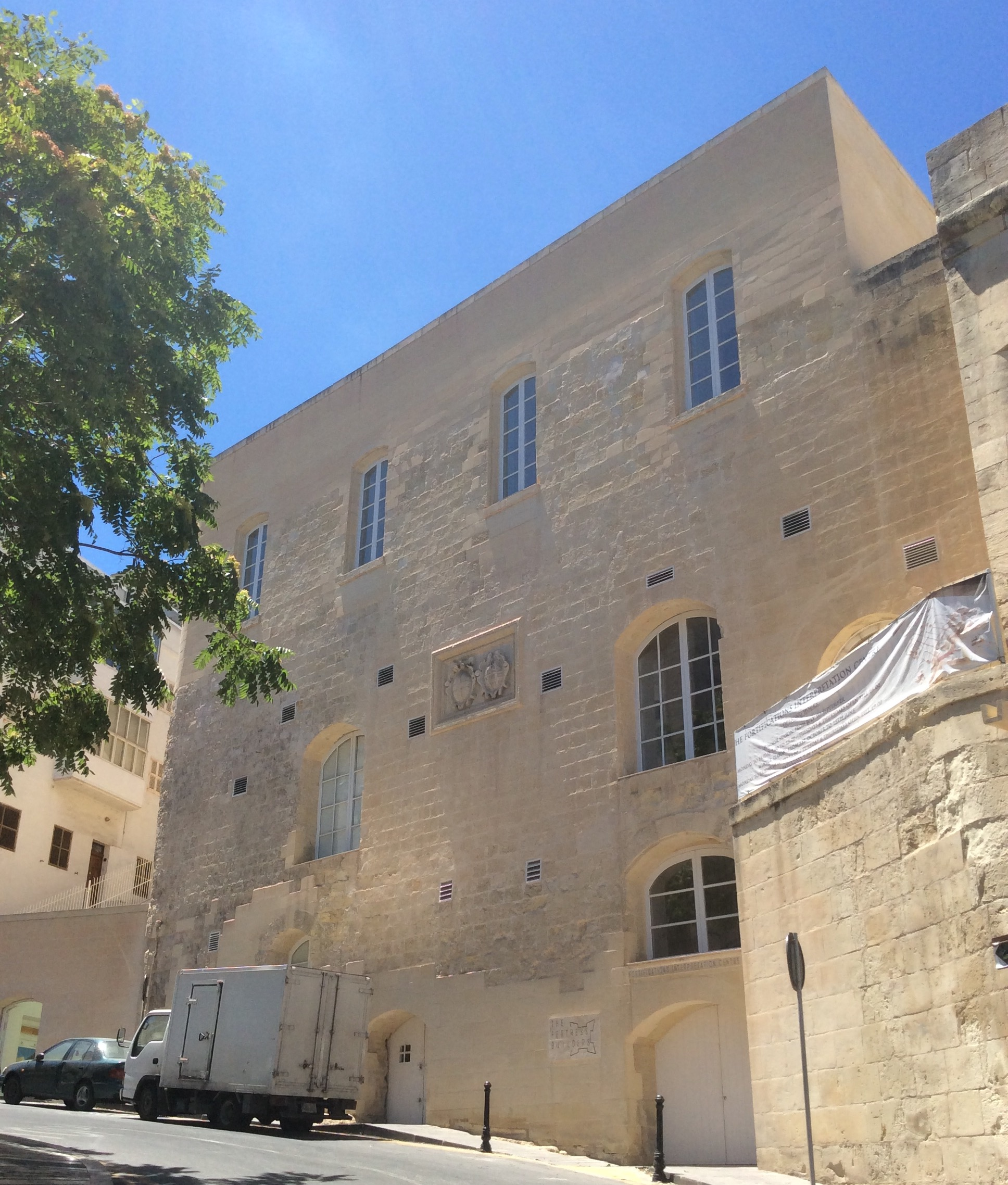 Malta Fortification Centre